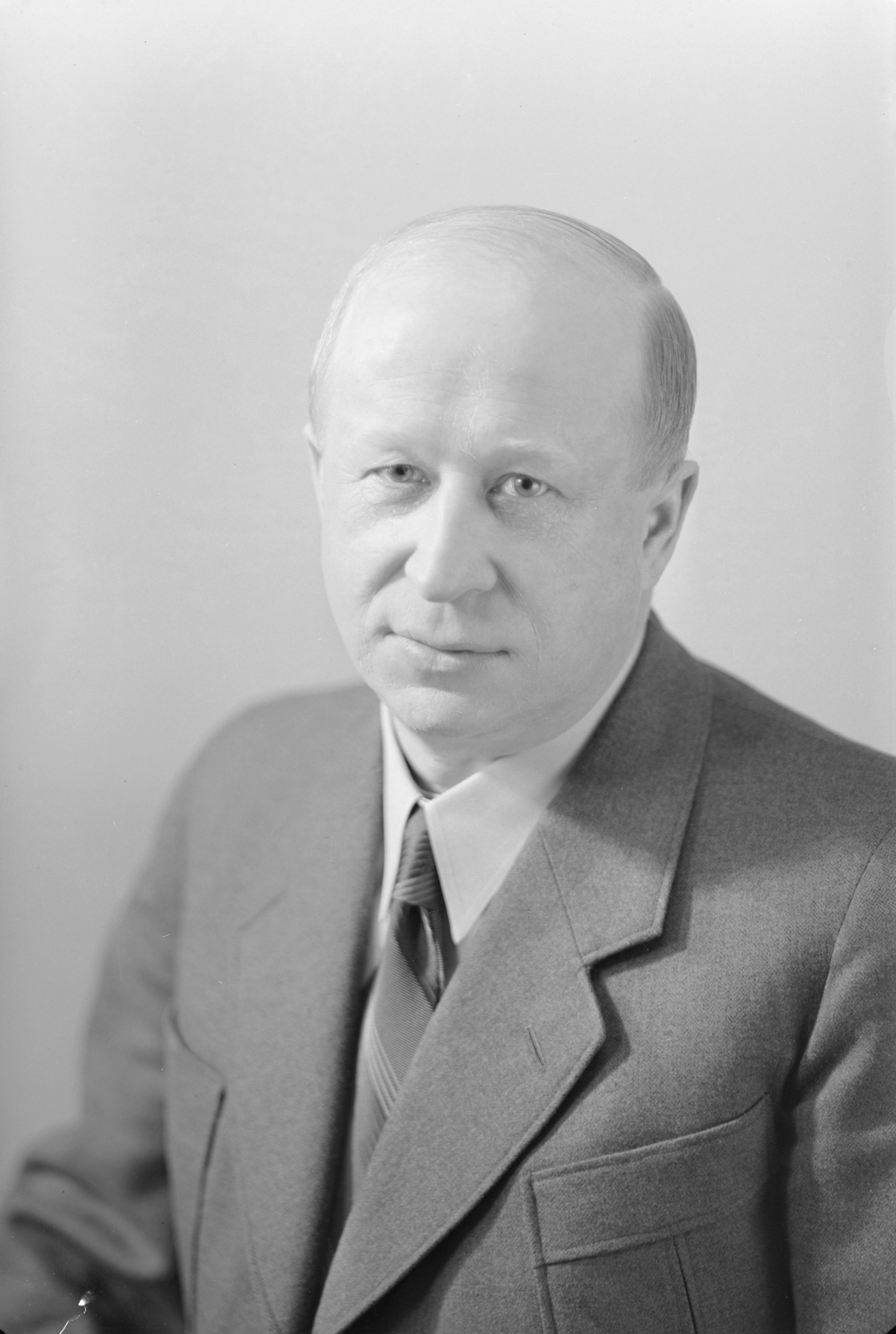 Photograph of the Finnish lawyer and member of parliament Juho Hyvönen (1891–1975).